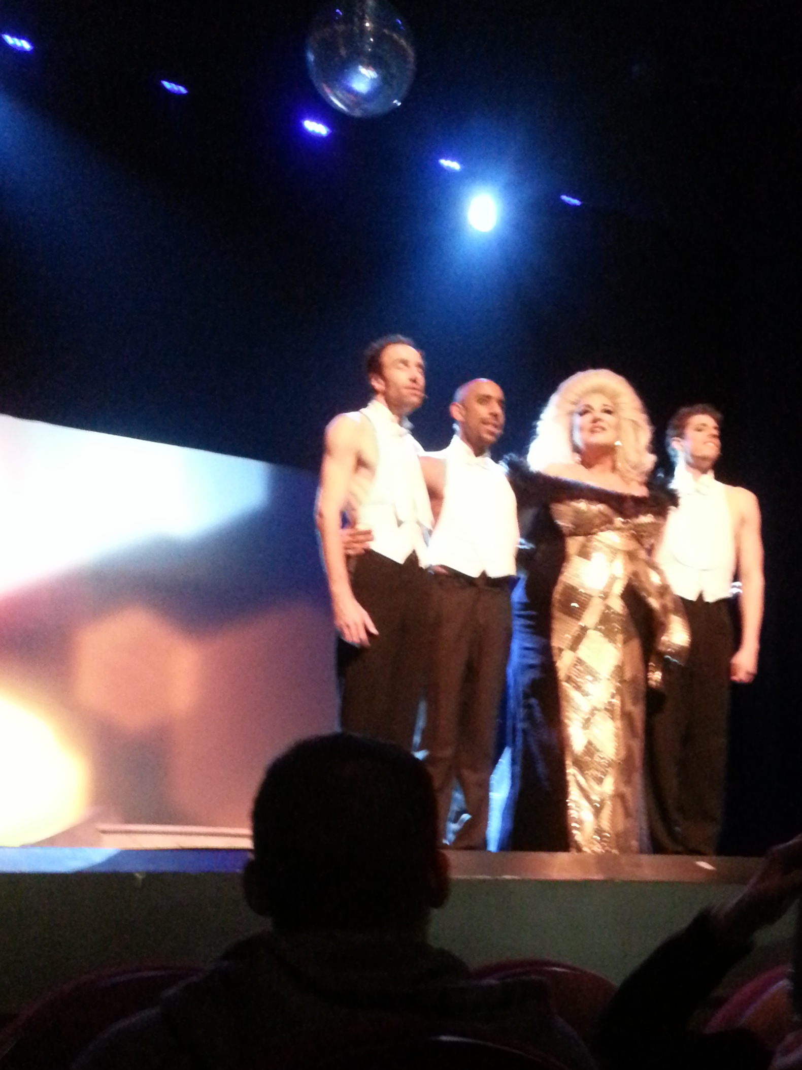 Marianne James on stage for Miss Carpenter (Théâtre du gymnase Marie Bell). In order (left to right): Romain Lemire, Marc van Weymeersch, Marianne James, Bastien Jacquemart